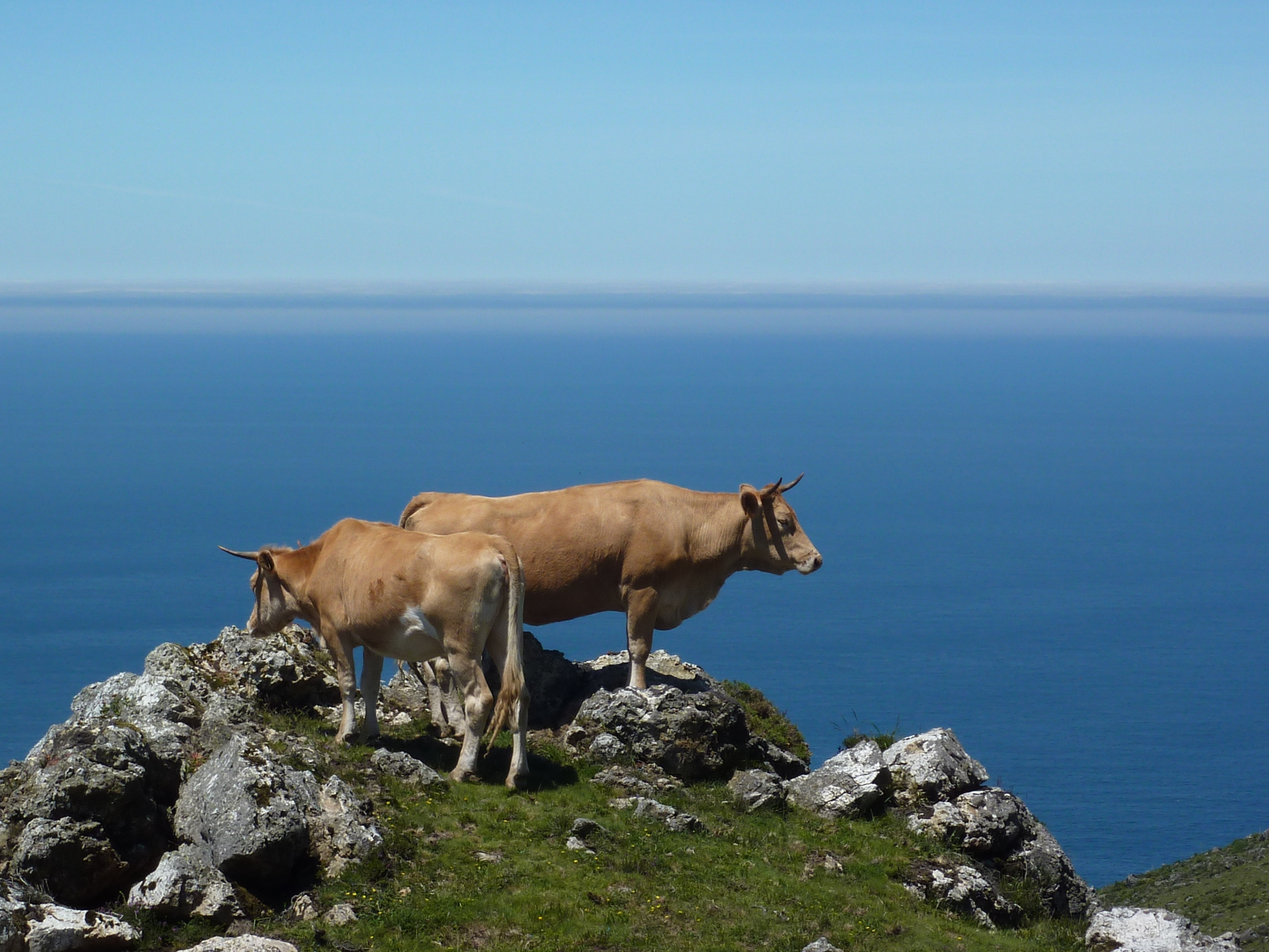 View from Garita de Erbeira, near cape Ortegal, Galicia (Spain).